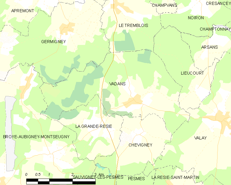 Map of French municipality